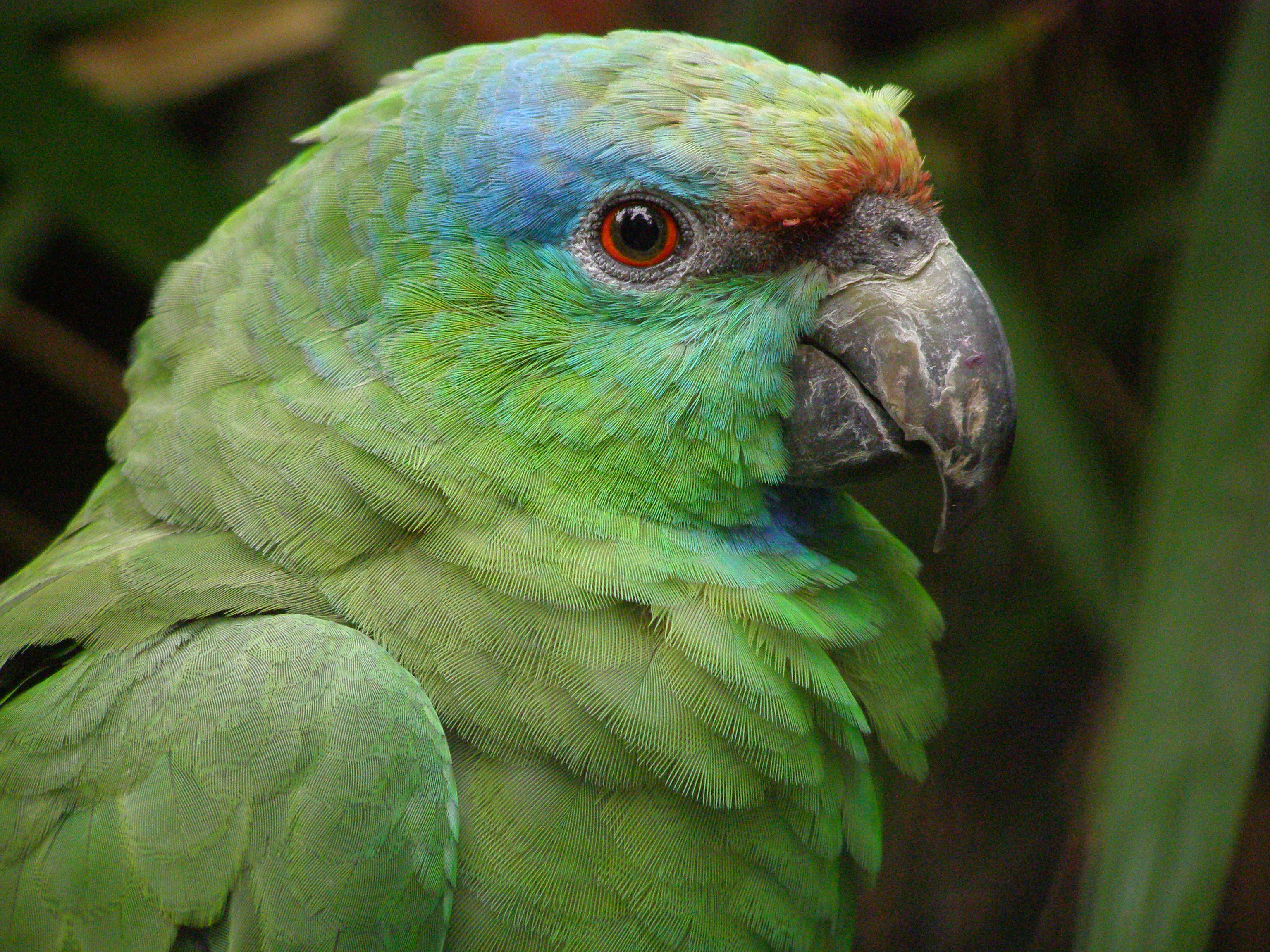 Festive Parrot